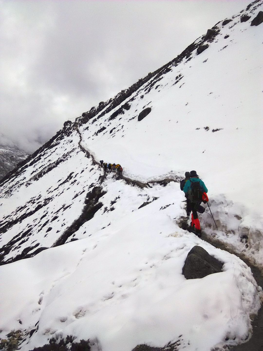 Gokyo To Machhermo trek route